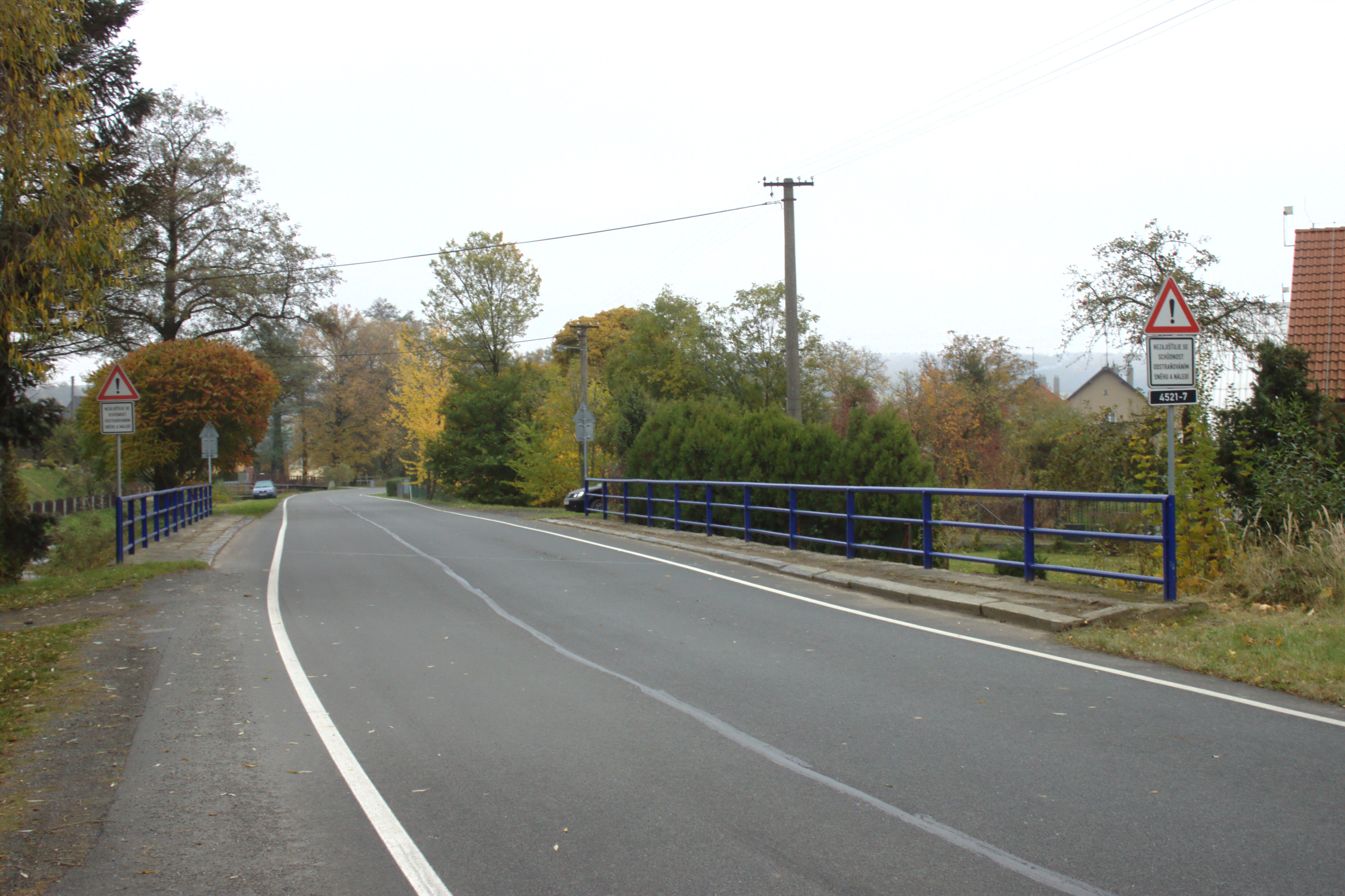 A bridge over a creek in Krásné Loučky, CZ